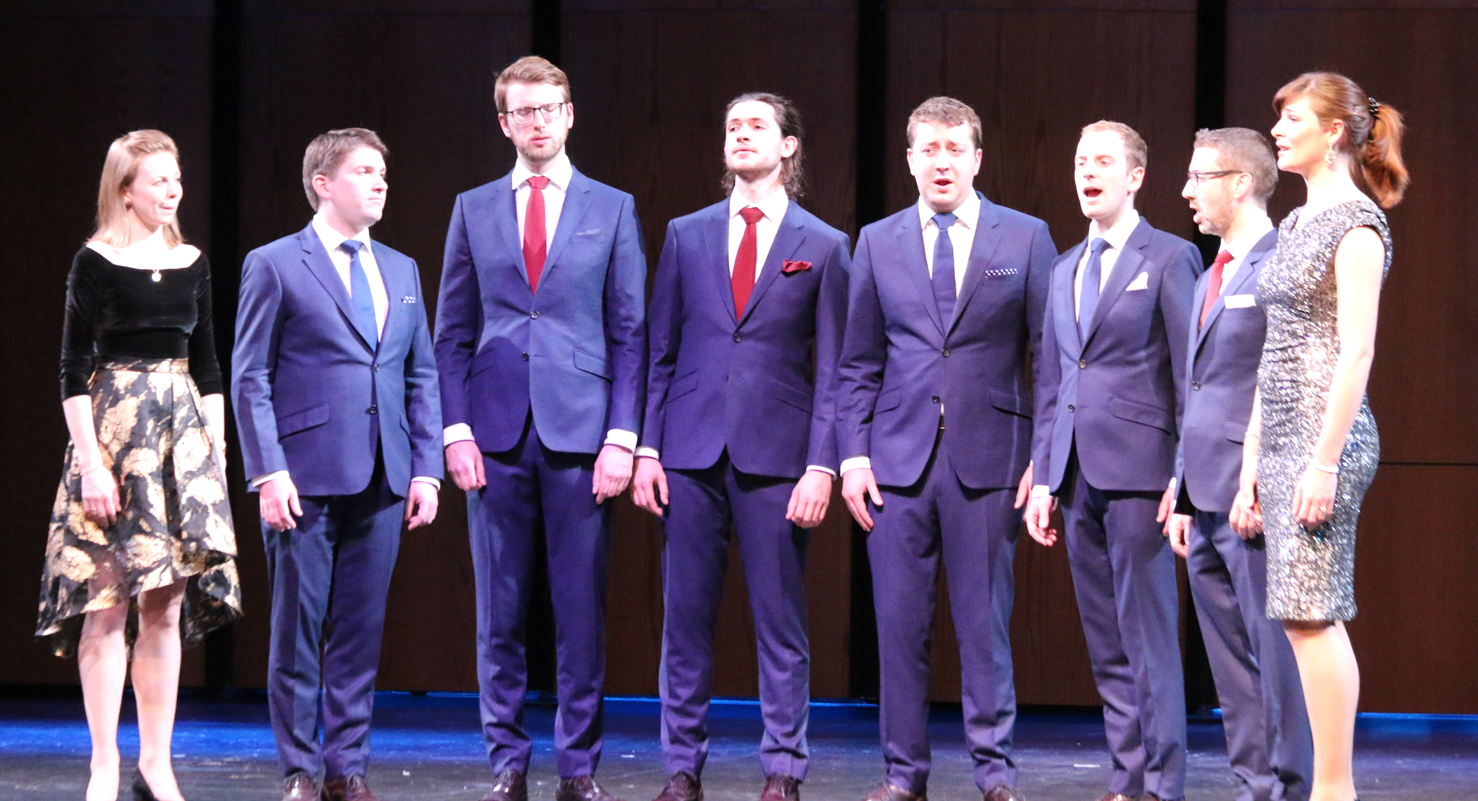 The UK a cappella group VOCES8 performing at the Engler Center in Chilton, Wisconsin, United States.